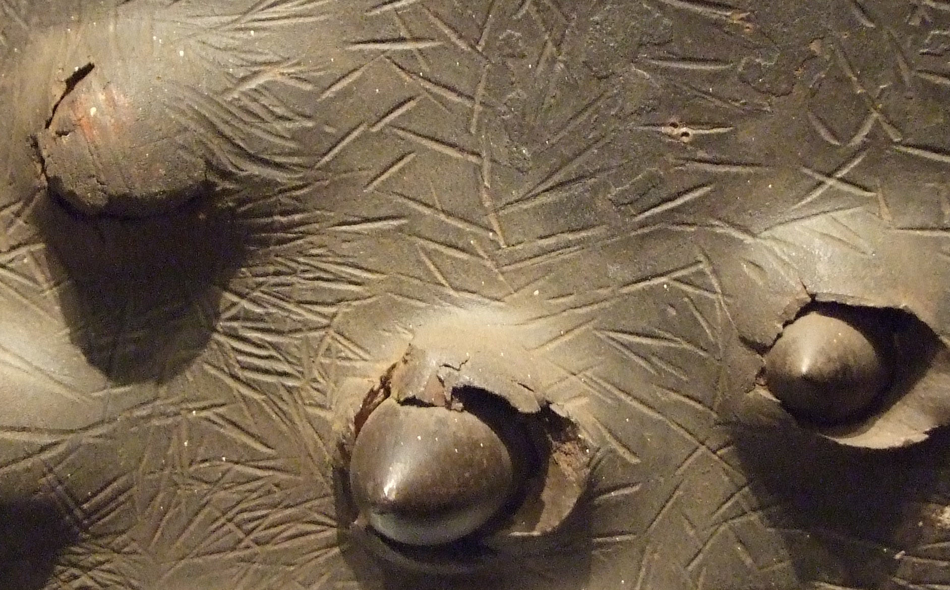 Armour plate tested against two-pounder anti-tank gun. At Aldershot Miltary Museum. Circa 1940.